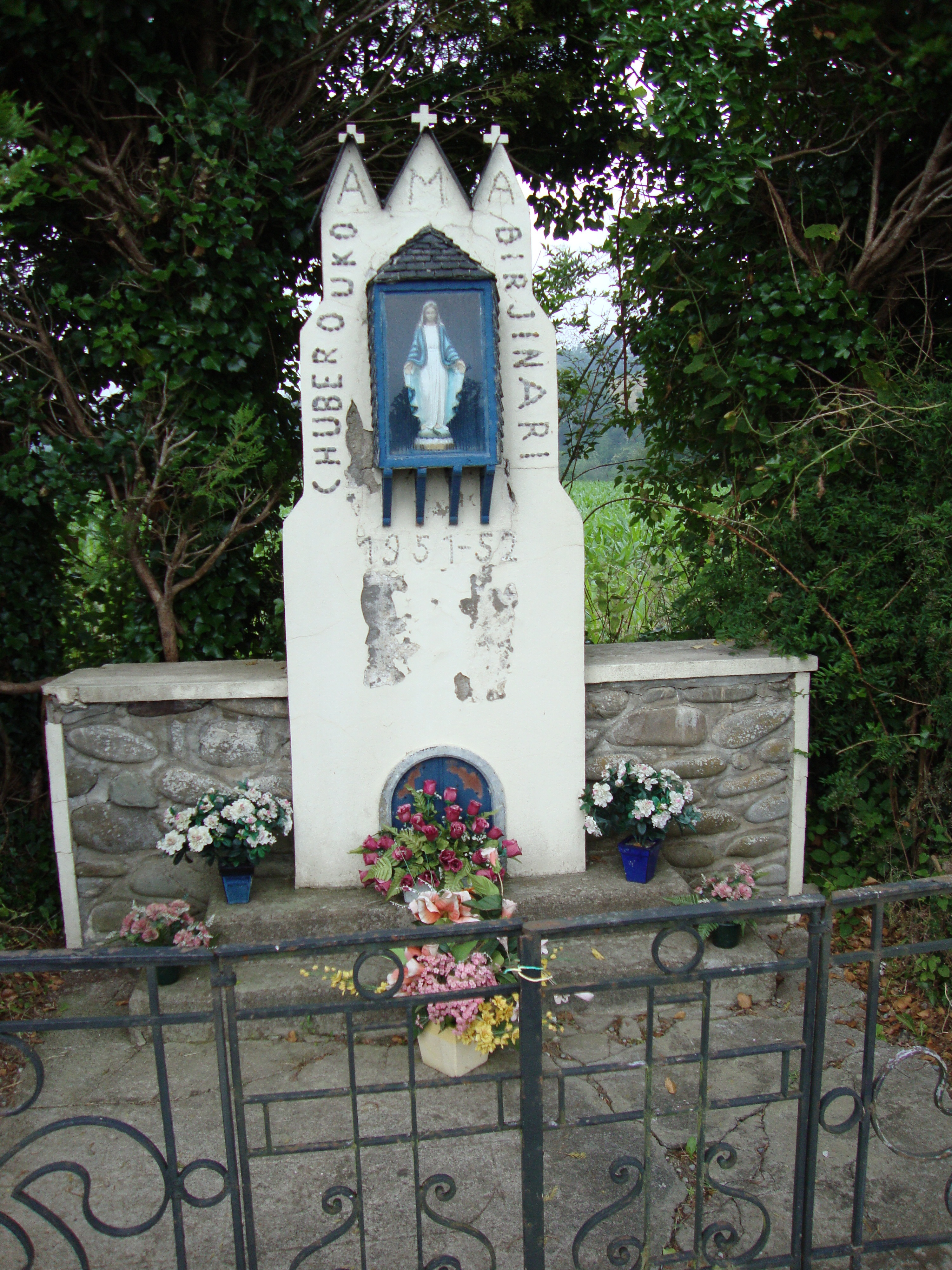 Idaux-Mendy, Pyr-Atl, Fr) wayside oratorium with a trinitarian steeple on the D 147 between Idaux and Mendy.